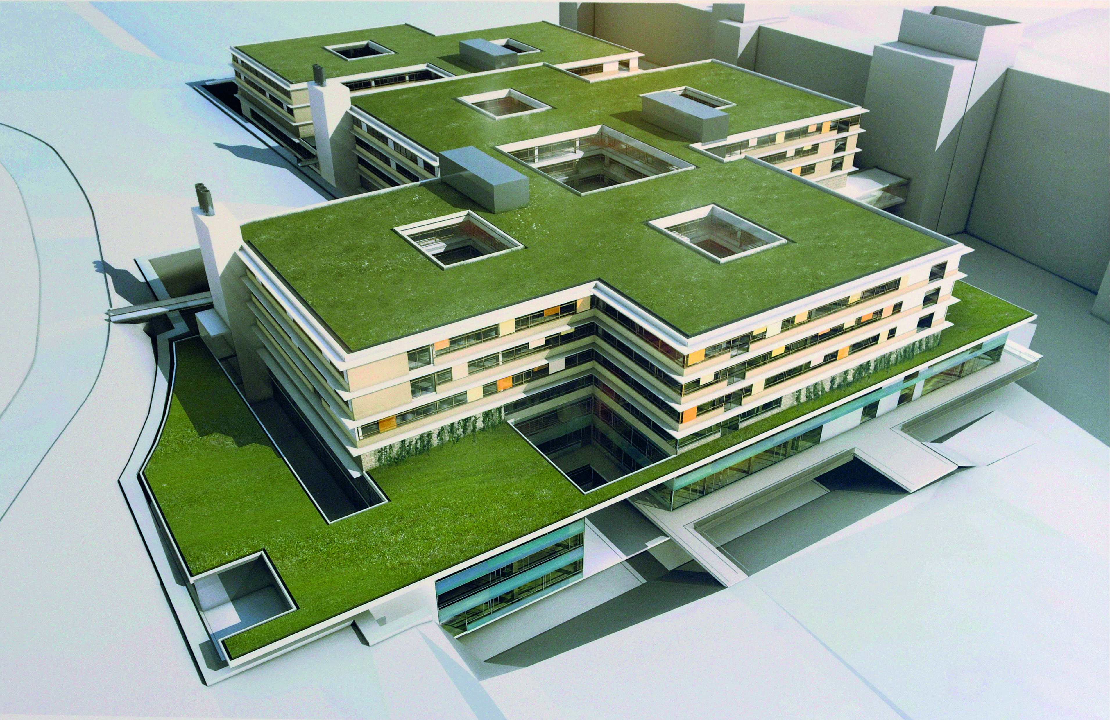 Klinikum Stuttgart